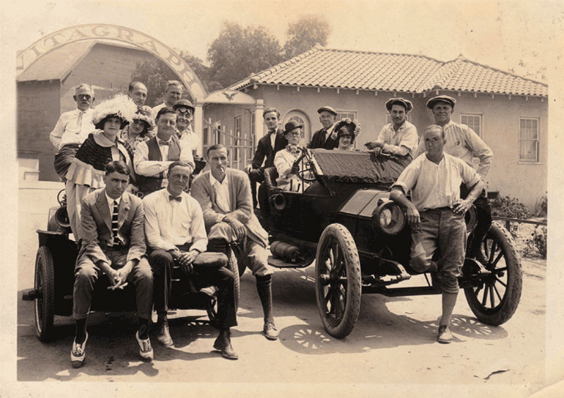 Vitagraph Studios, early Hollywood film studio,photo from the collection of Robert Monroe,Robert Monroe, shown in center of photograph wearing knickers,from Sven, his grandson